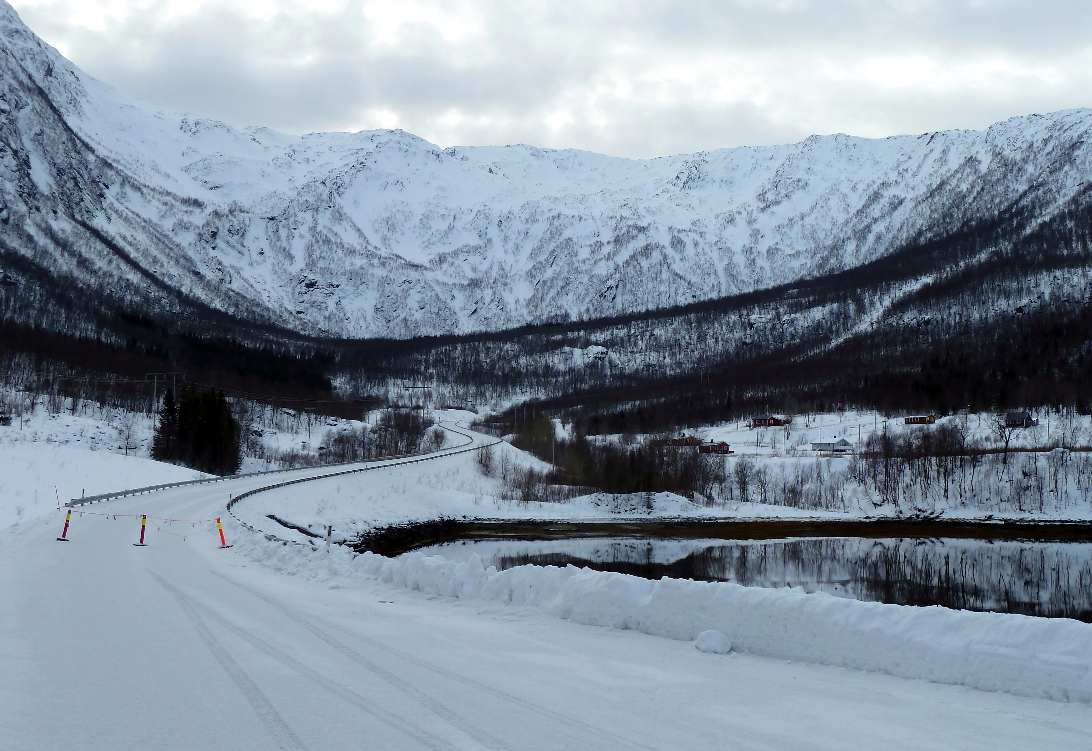 Road block at Couty Road 827 (Nordland, Norway). Picture is taken in february 2013 in Tømmerfjorden. The Brattlitunnel, 800 meters further north, is closed due to a fire in January 2013.